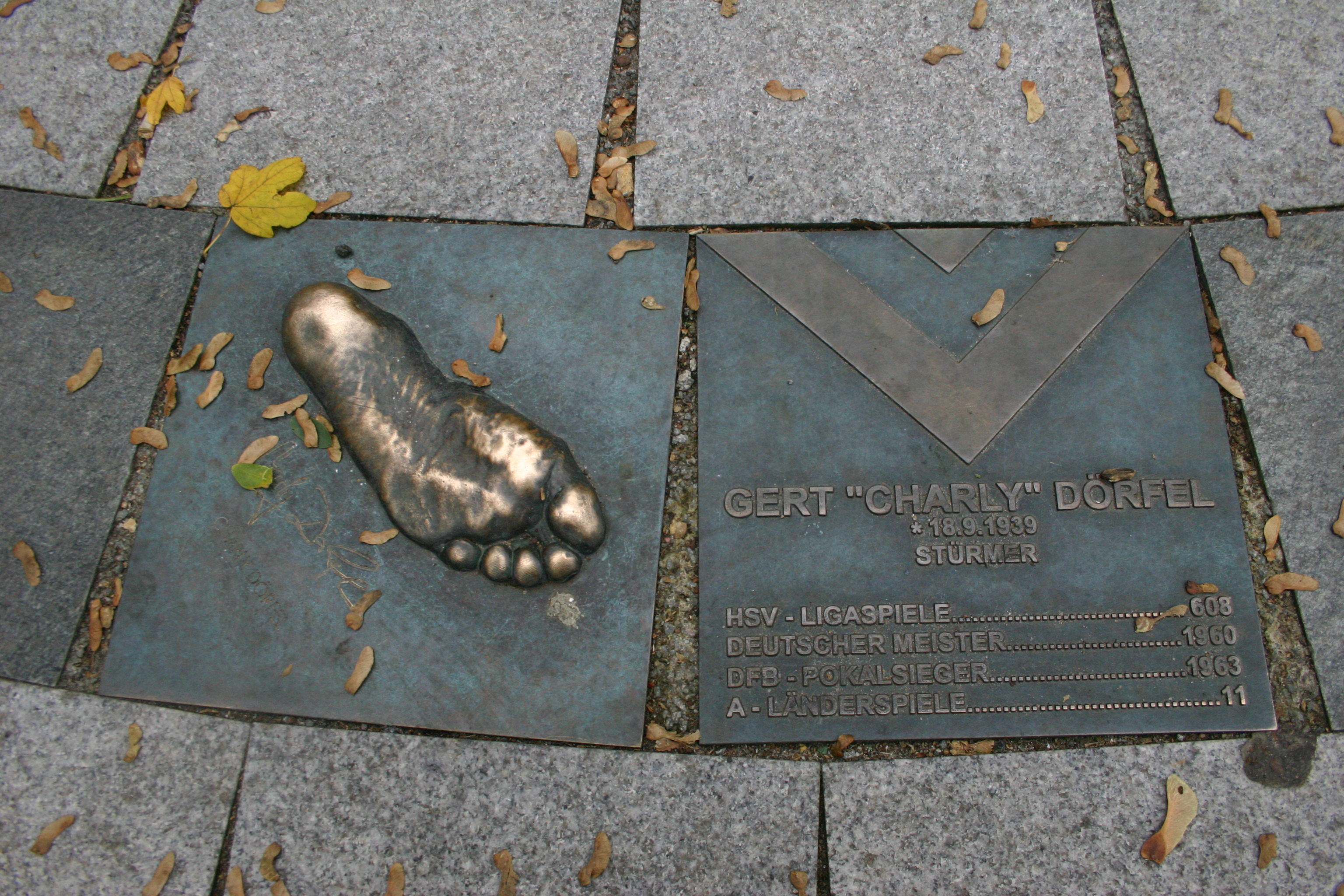 Footprint of Gert "Charly" Dörfel of Hamburger SV on the "walk of fame" in front of the stadium